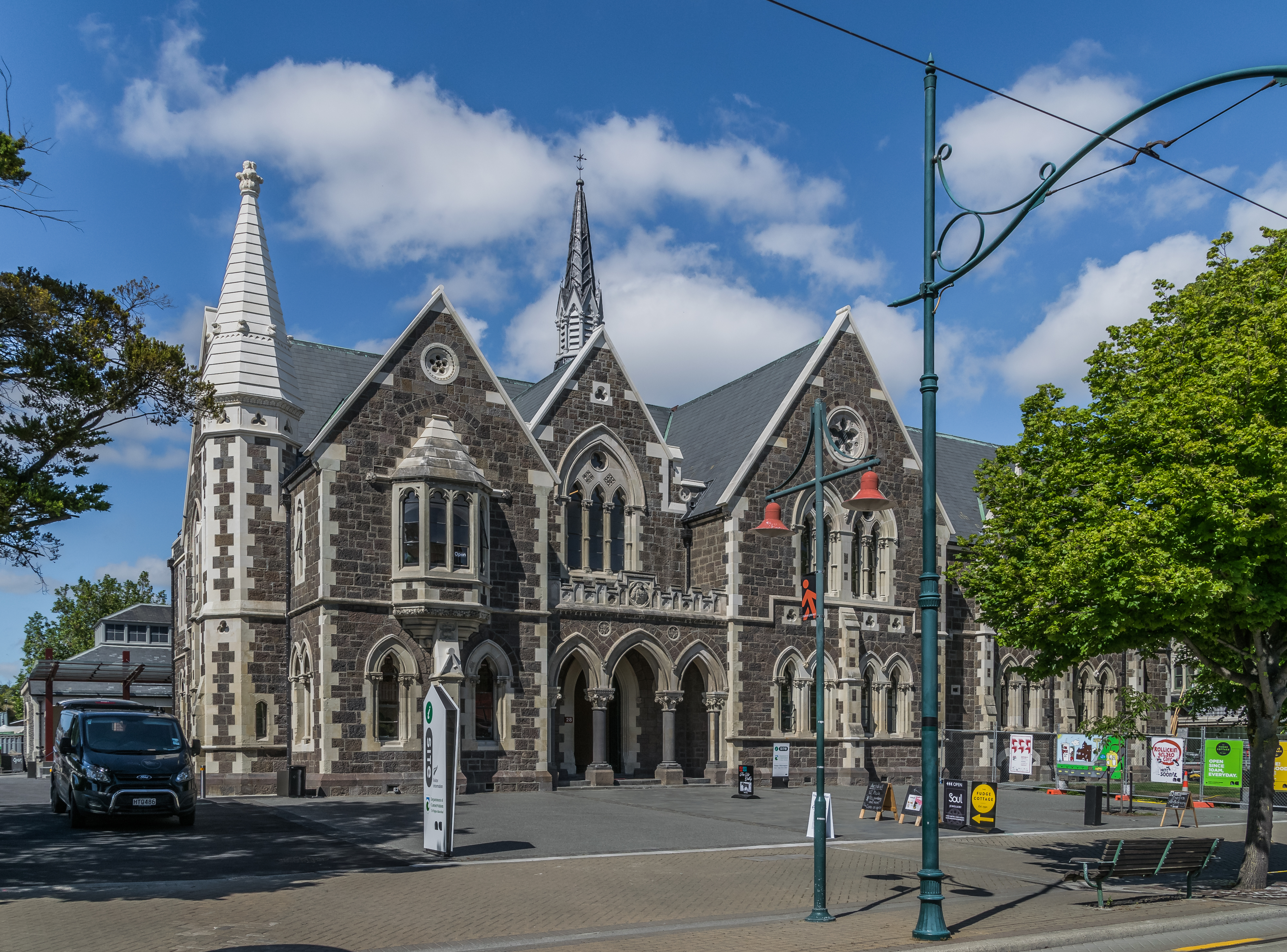 Building at 28 Worcester Street (actually visitor centre) in Christchurch, New Zealand